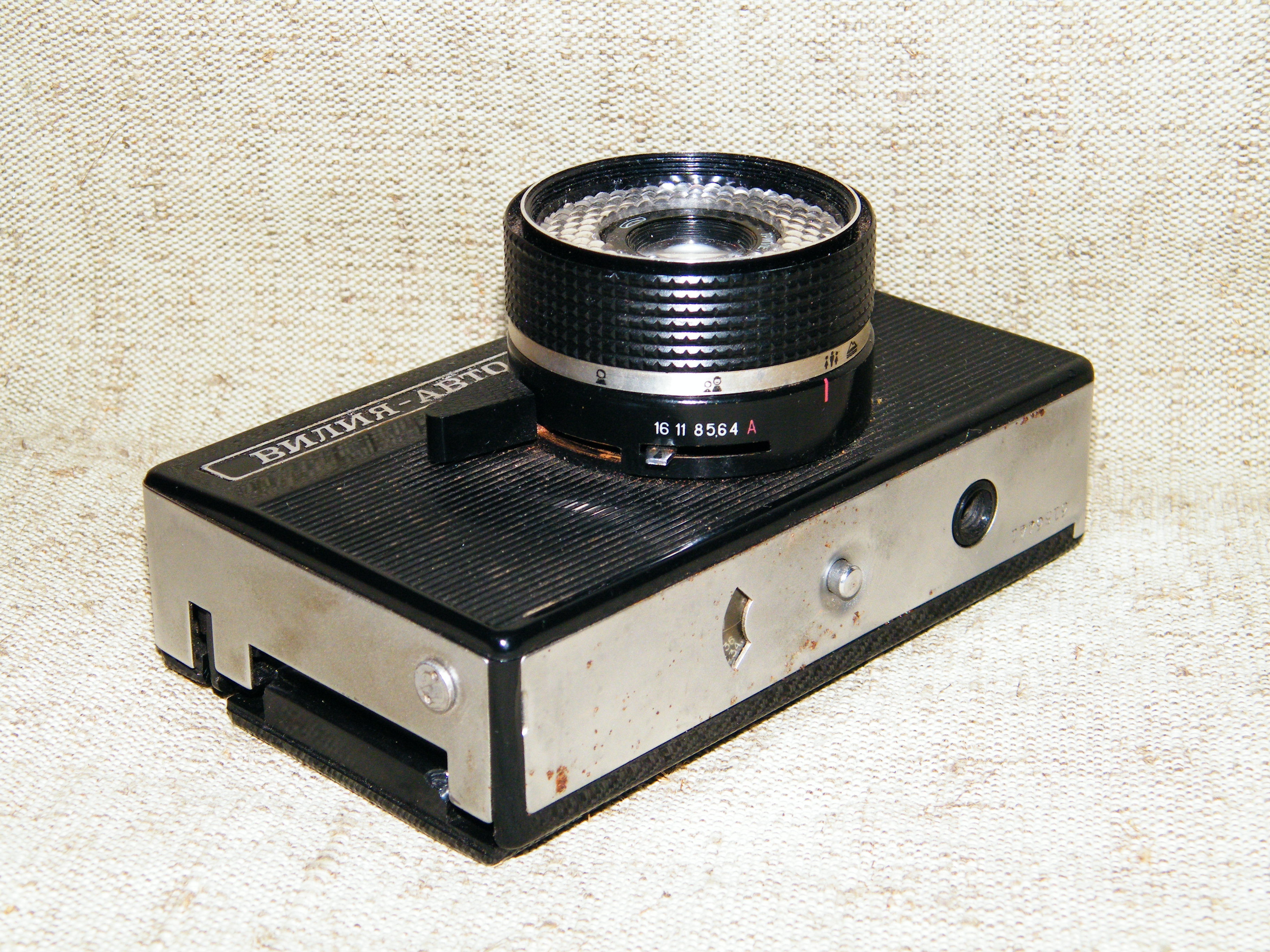 Вилия-авто